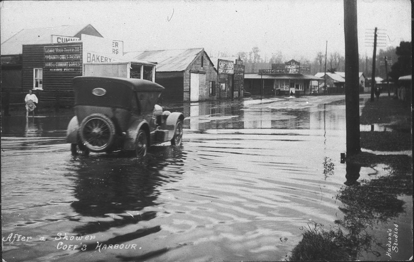 Format: Photograph Find more detailed information about this photograph: .au/item/itemDetailPaged.aspx?itemID=389653 Search for more great images in the State Library's collections: .au/search/SimpleSearch.aspx From the collection of the State Library of New South Wales